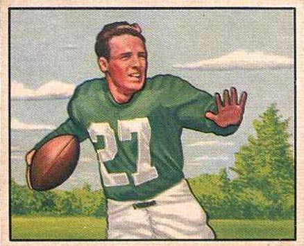 1950 Bowman Football card of Clyde Scott of the Philadelphia Eagles card number #60. Card is in public domain, copyright nor renewed.